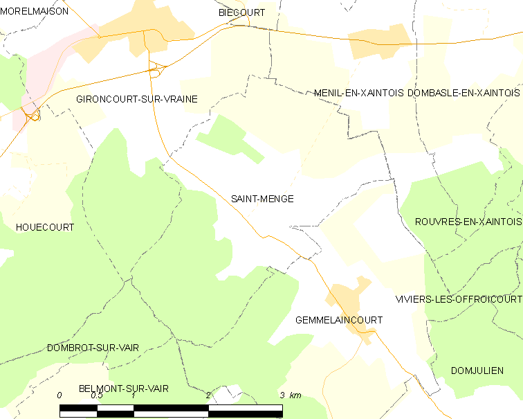 Map of French municipality Saint-Menge